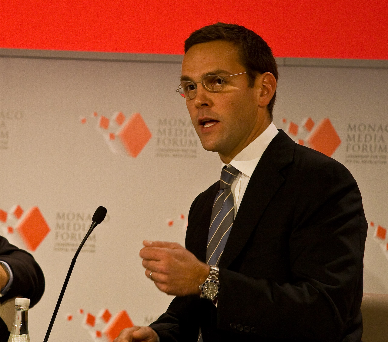 James Murdoch in 2008